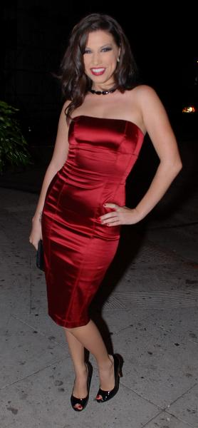 Roxy DeVille at Wicked Pictures party.